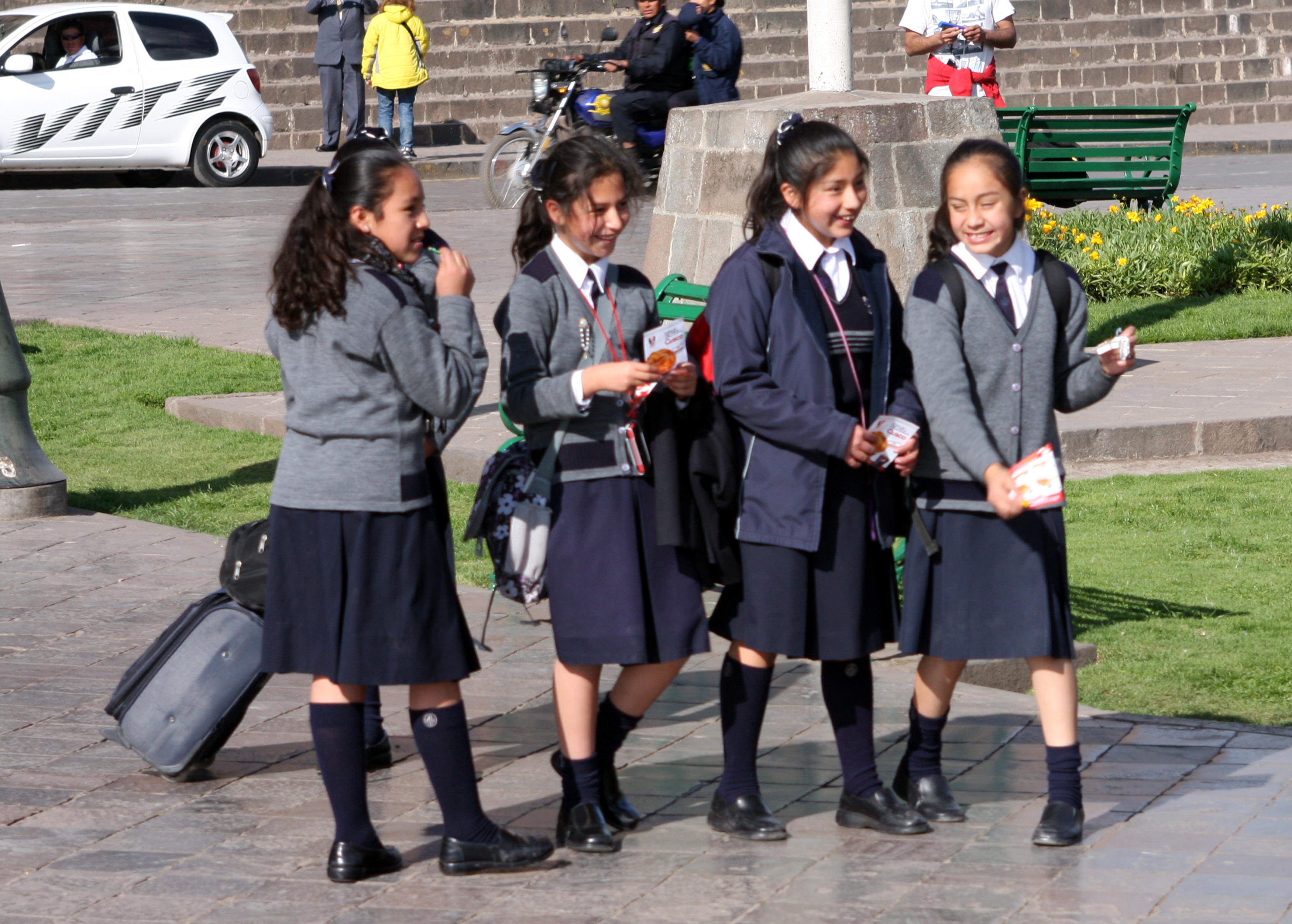 School girls from Cusco, Peru.